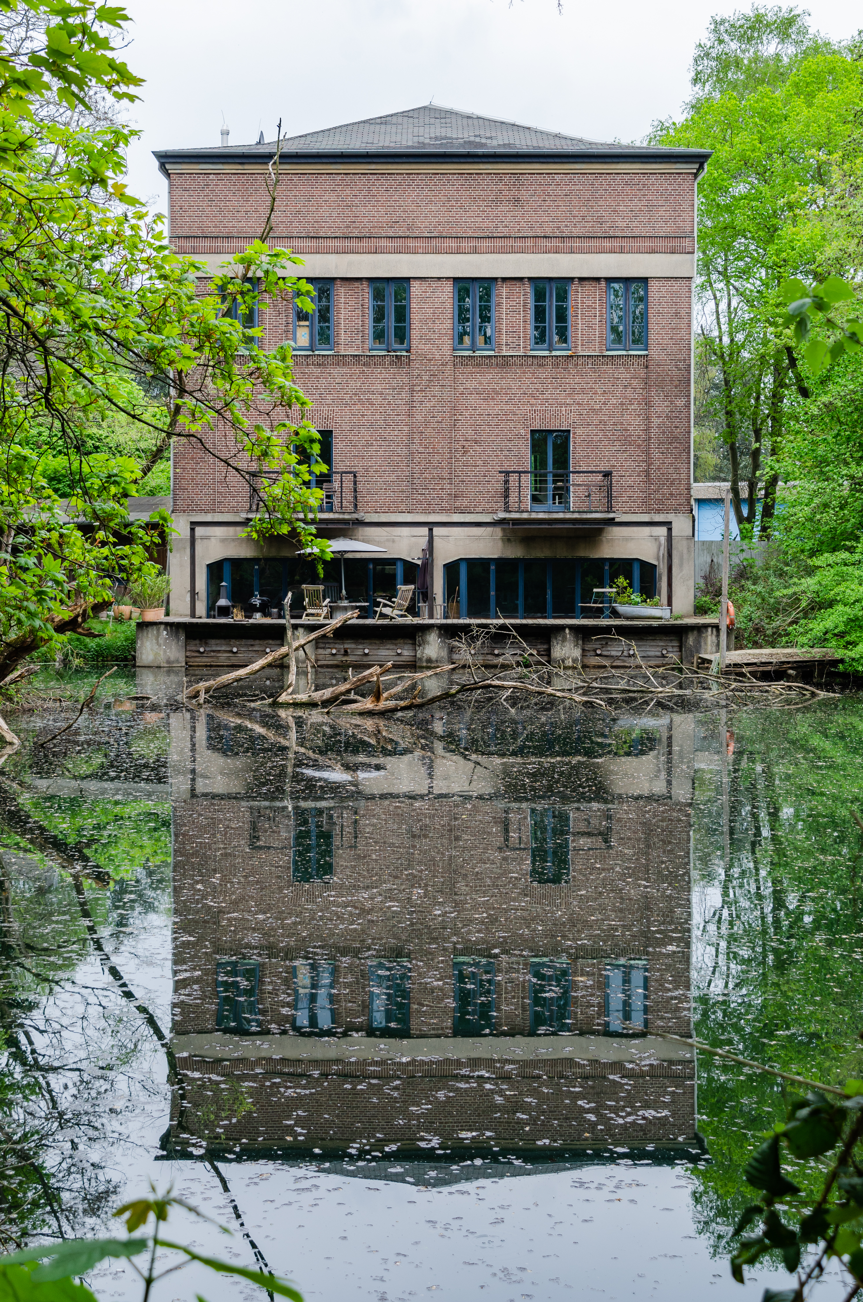 Moers (North Rhine-Westphalia, Germany) – district Repelen – former Repelen pump station at the stream “Moersbach”